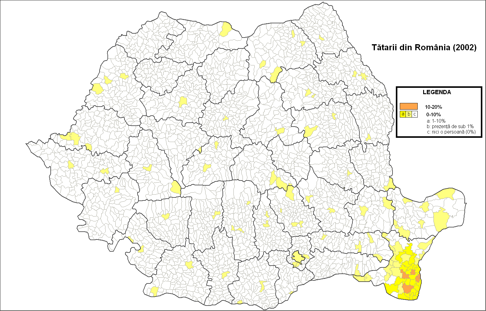 The distribution of the Tatars in Romania (census 2002)